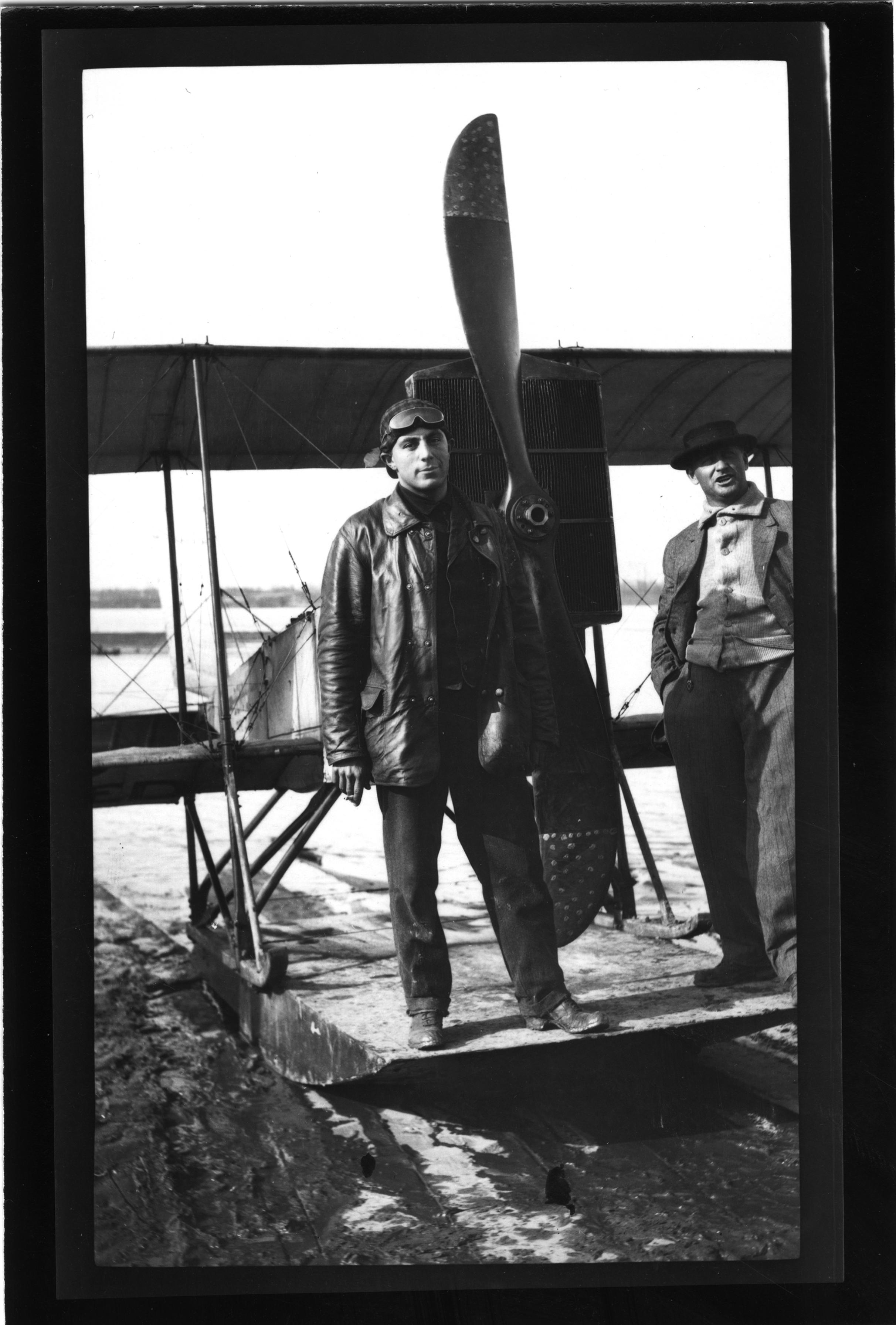 Collection: Painter (Milton McFarland, Sr.) Collection Call number: PI/1988.0006 System ID: 98637 Flying machine. First plane down Mississippi River. Janas, pilot, killed in Russia in 1917, stands in front of biwing airplane. Harris Hurlbert in sportjacket, also in picture. Please see our profile page for information on ordering. Scanned as tiff in 2008/05/02 by MDAH. Credit: Courtesy of the Mississippi Department of Archives and History